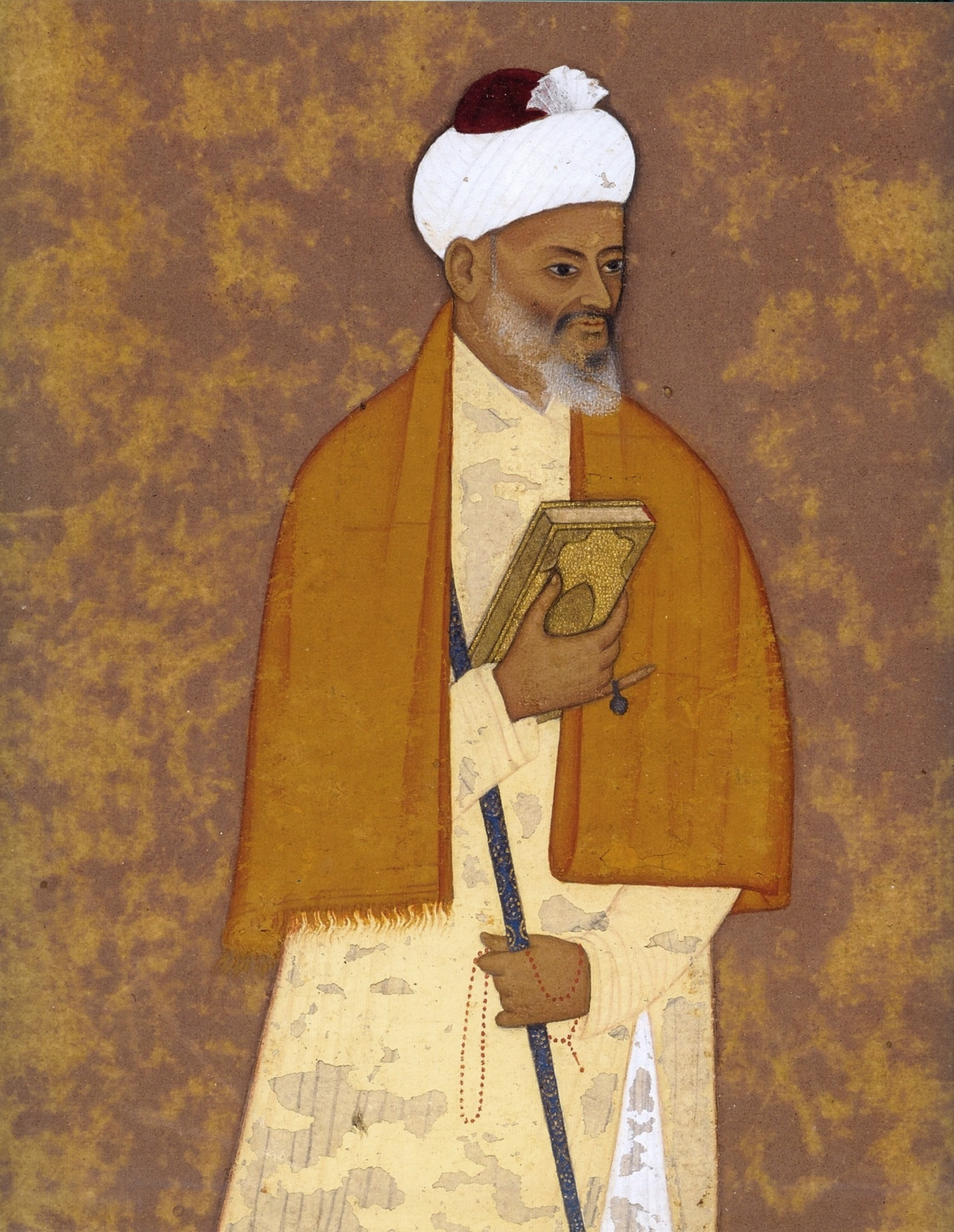 Bodleian Painter. A Mullah (detail) Bijapur, ca. 1620, British Museum, London